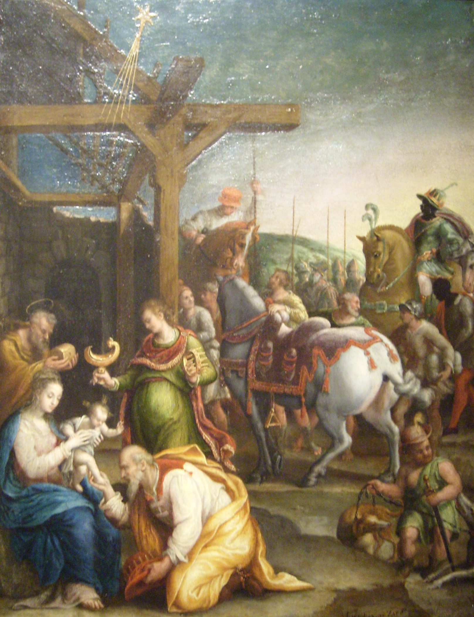 The Adoration of the Magi